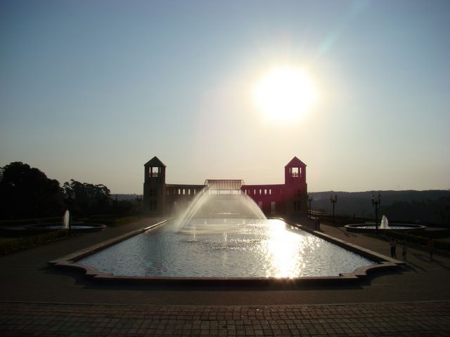 Tanguá Park, Curitiba, Paraná, Brazil